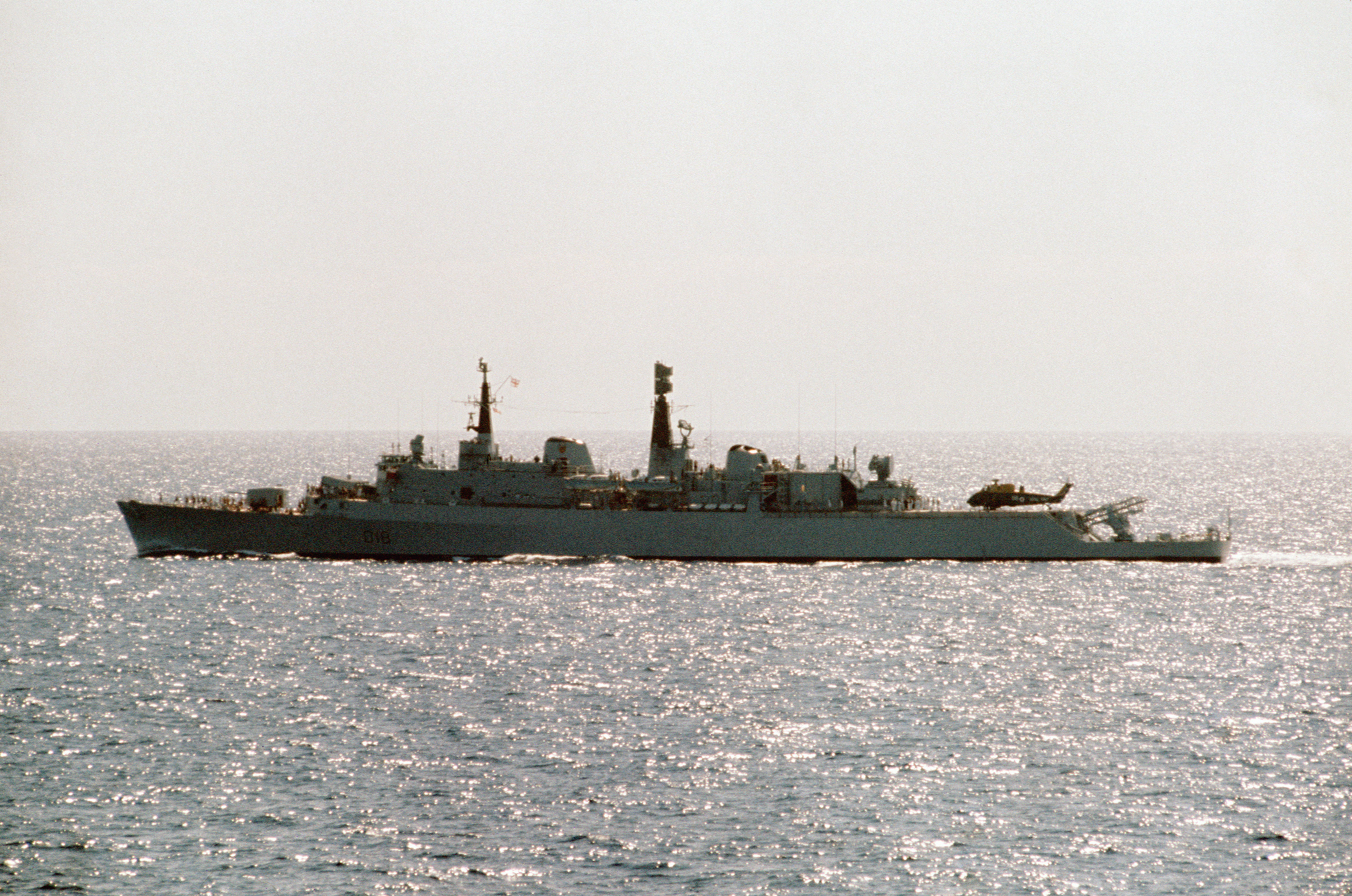 The British destroyer HMS Antrim (D18) underway during NATO exercise "Display Determination" on 29 October 1976 in the Mediterranean Sea. Note the Westland Wessex HAS3 helicopter on the flight deck.